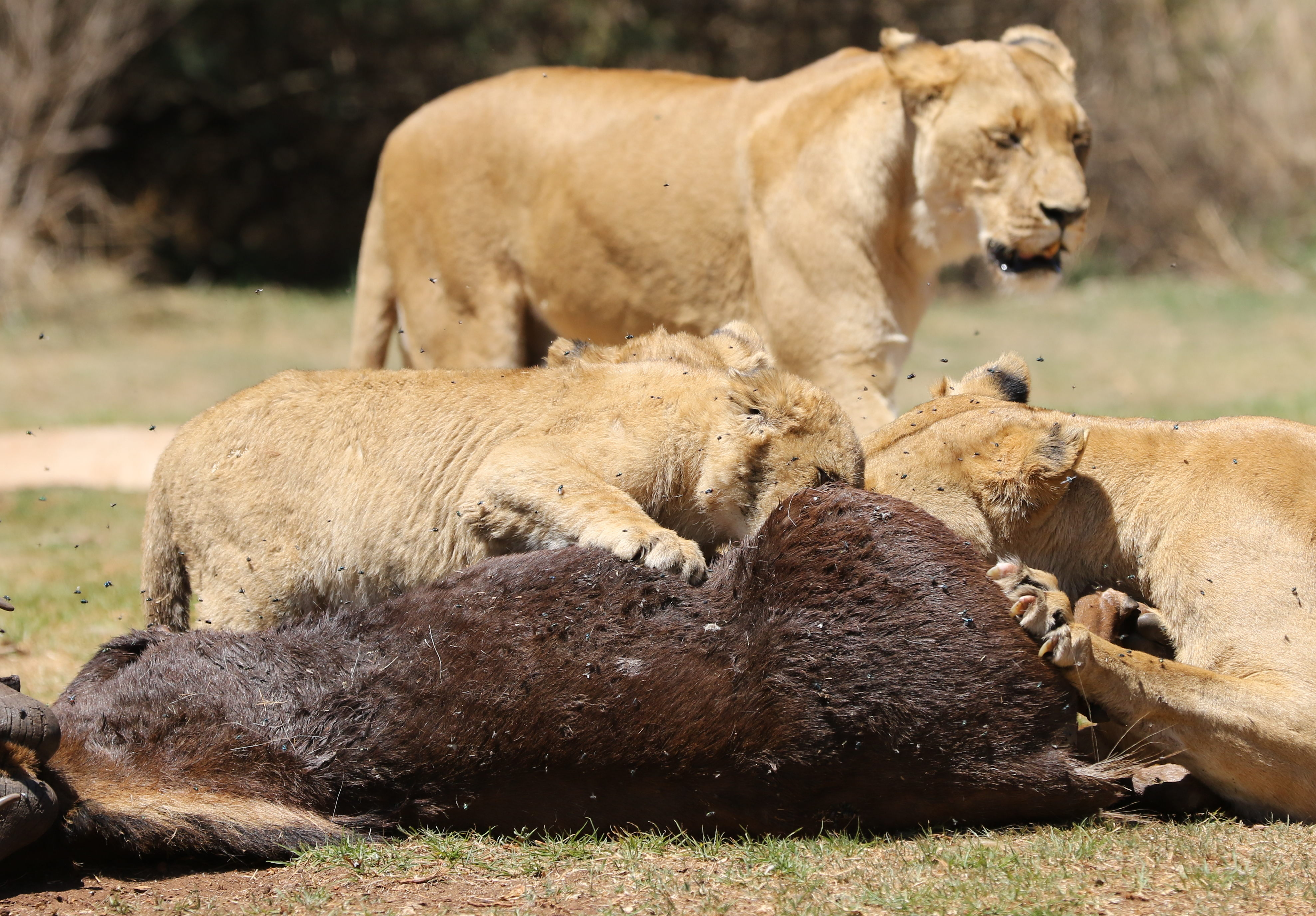 African lion, Panthera leo feeding at Krugersdorp Game Park, South Africa